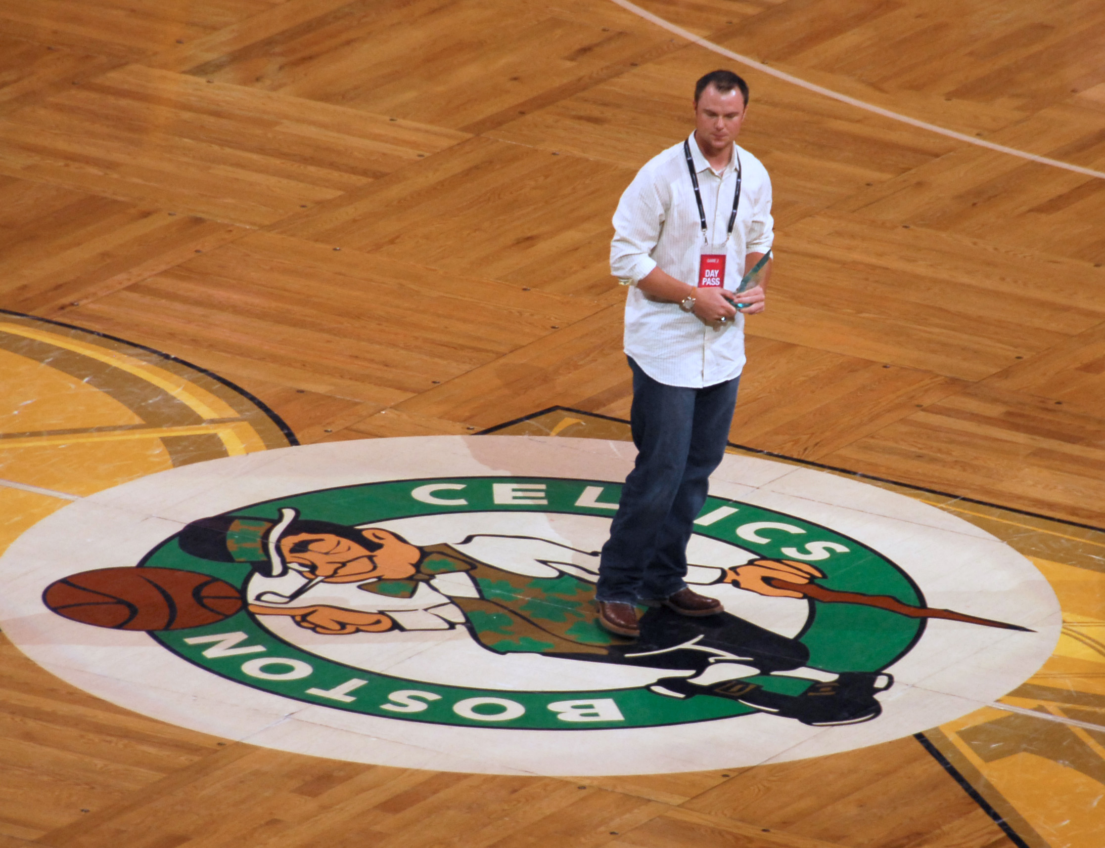 Jon Lester at the TD Garden, June 8, 2008 - NBA Finals Game 2Tonight's Hero Among Us - Jon Lester